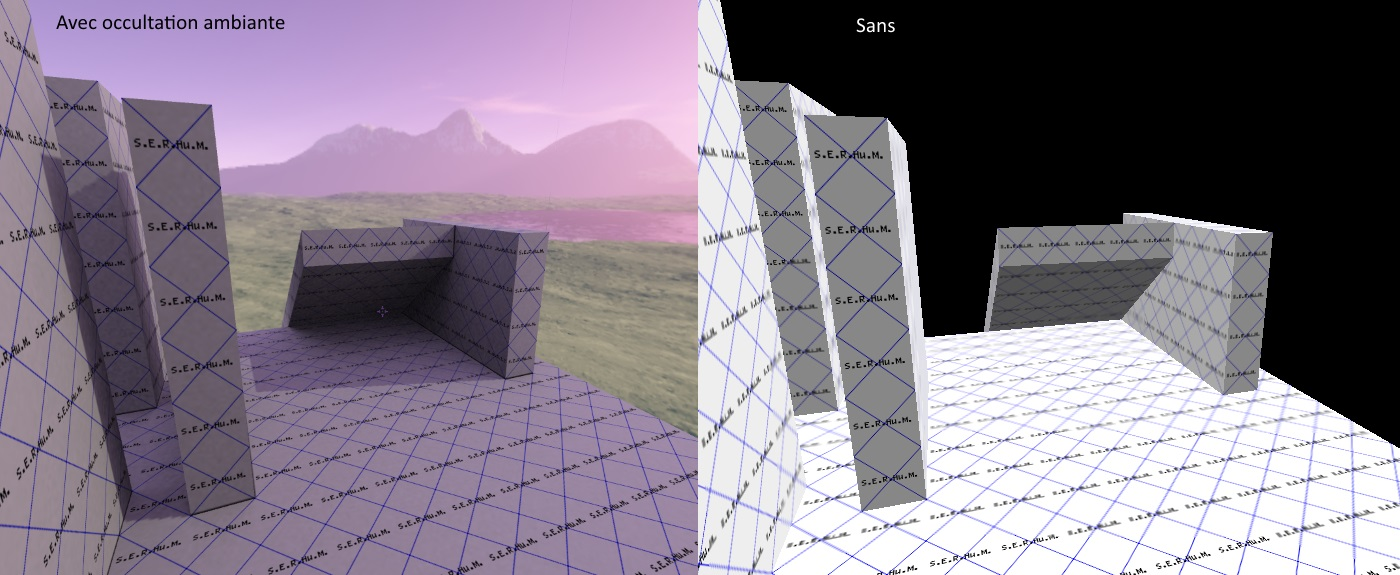 This represents a test environment with image based irradiance lighting that goes through an ambiant occlusion evaluator, and on the right, the flat render.